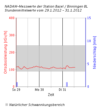 gamma ray radiation measured near Basel, Switzerland, January 29-31, 2012